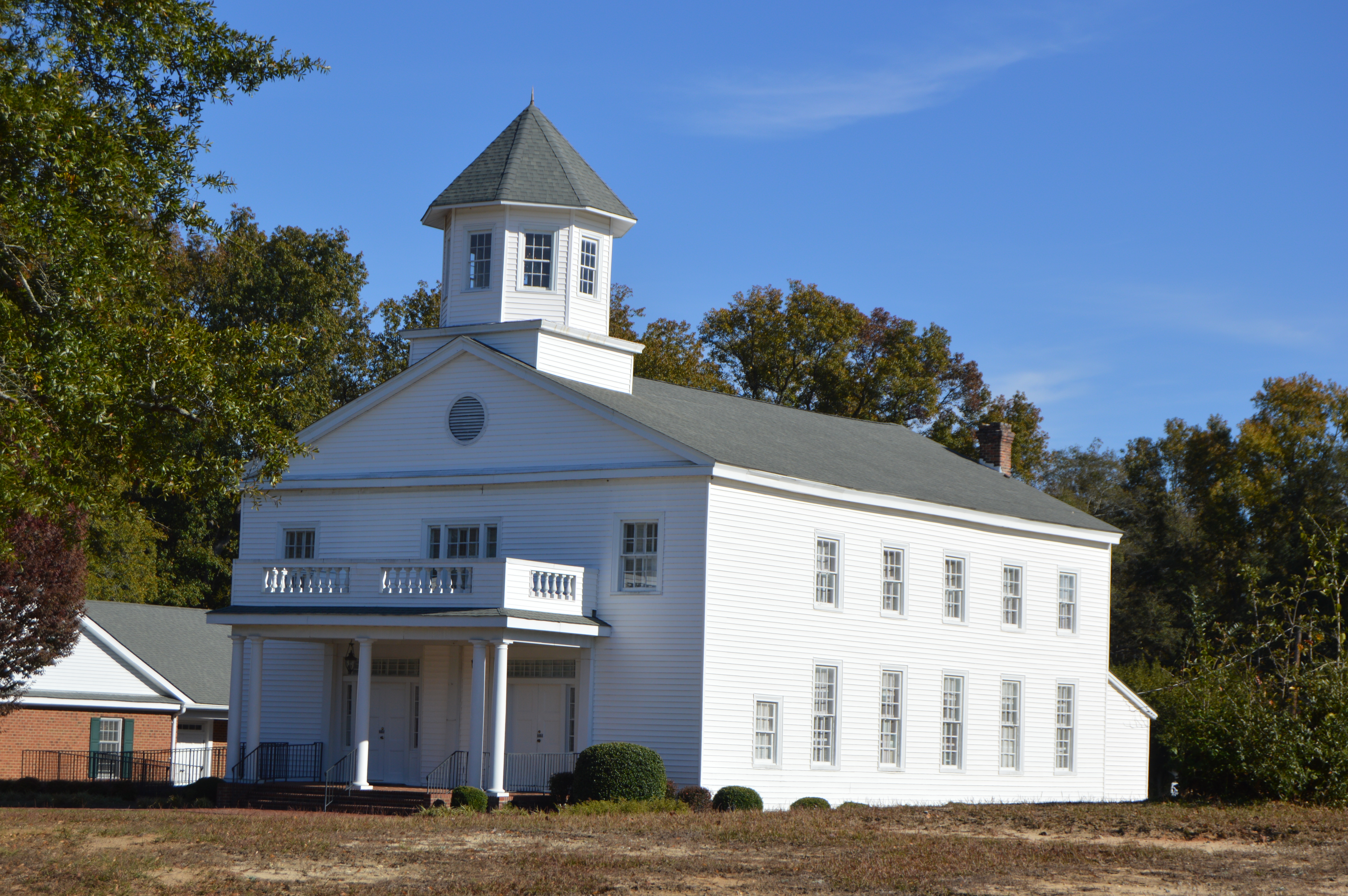 Front and southwestern side of the Laurel Hill Presbyterian Church, located at the intersection of McFarland and Laurel Hill Church Roads, east of Laurel Hill, in Scotland County, North Carolina, United States. Built in 1856, it is listed on the National Register of Historic Places.